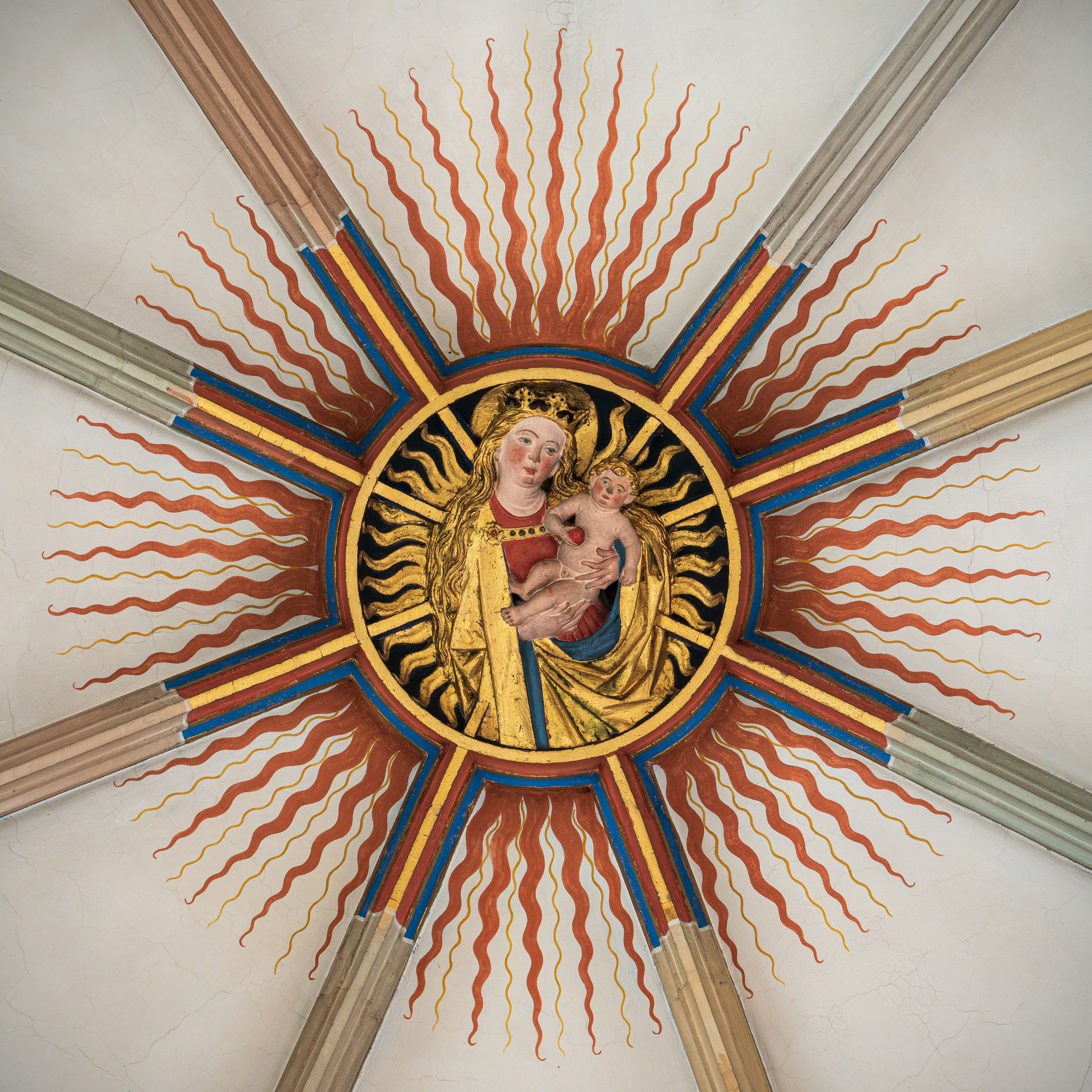 Tübingen: The easternmost keystone of the Gothic vault in the choir room of St. George’s Collegiate Church, showing the Madonna and Child.